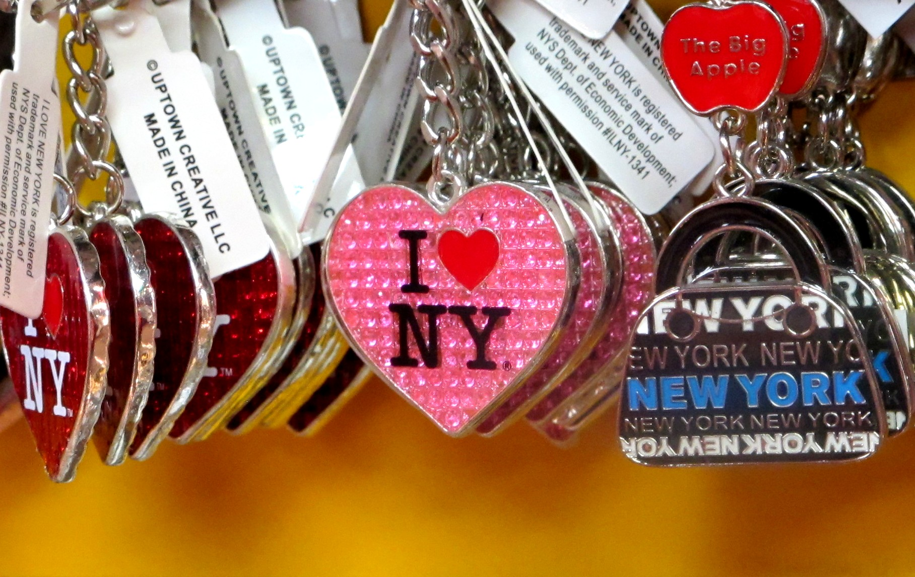 Made in China?